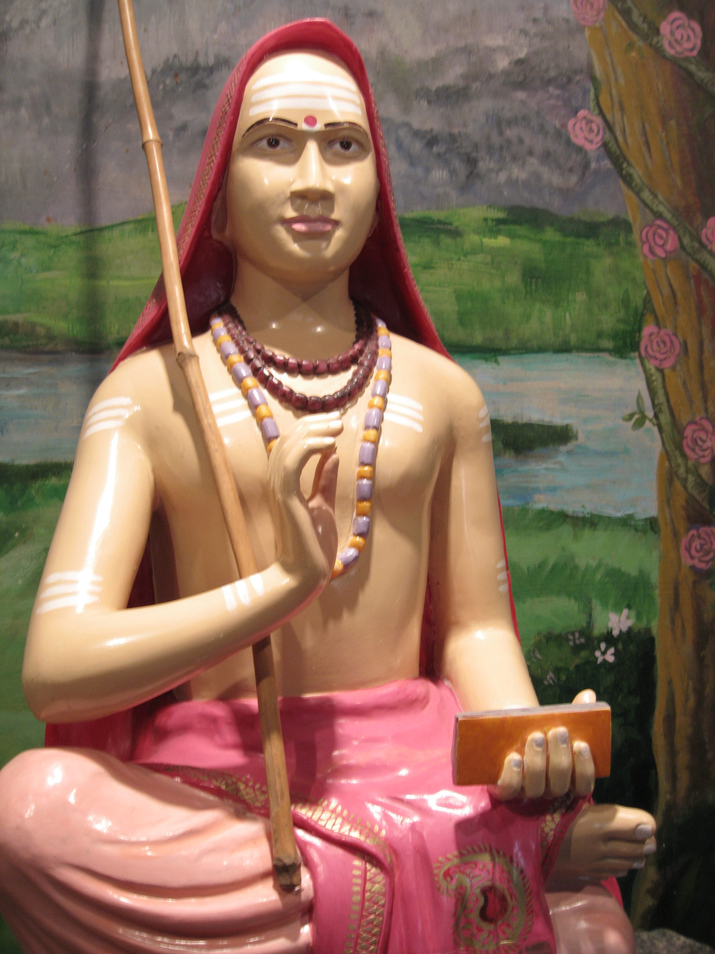 A statue of Adi Shanakaracharya in a temple in Mysore